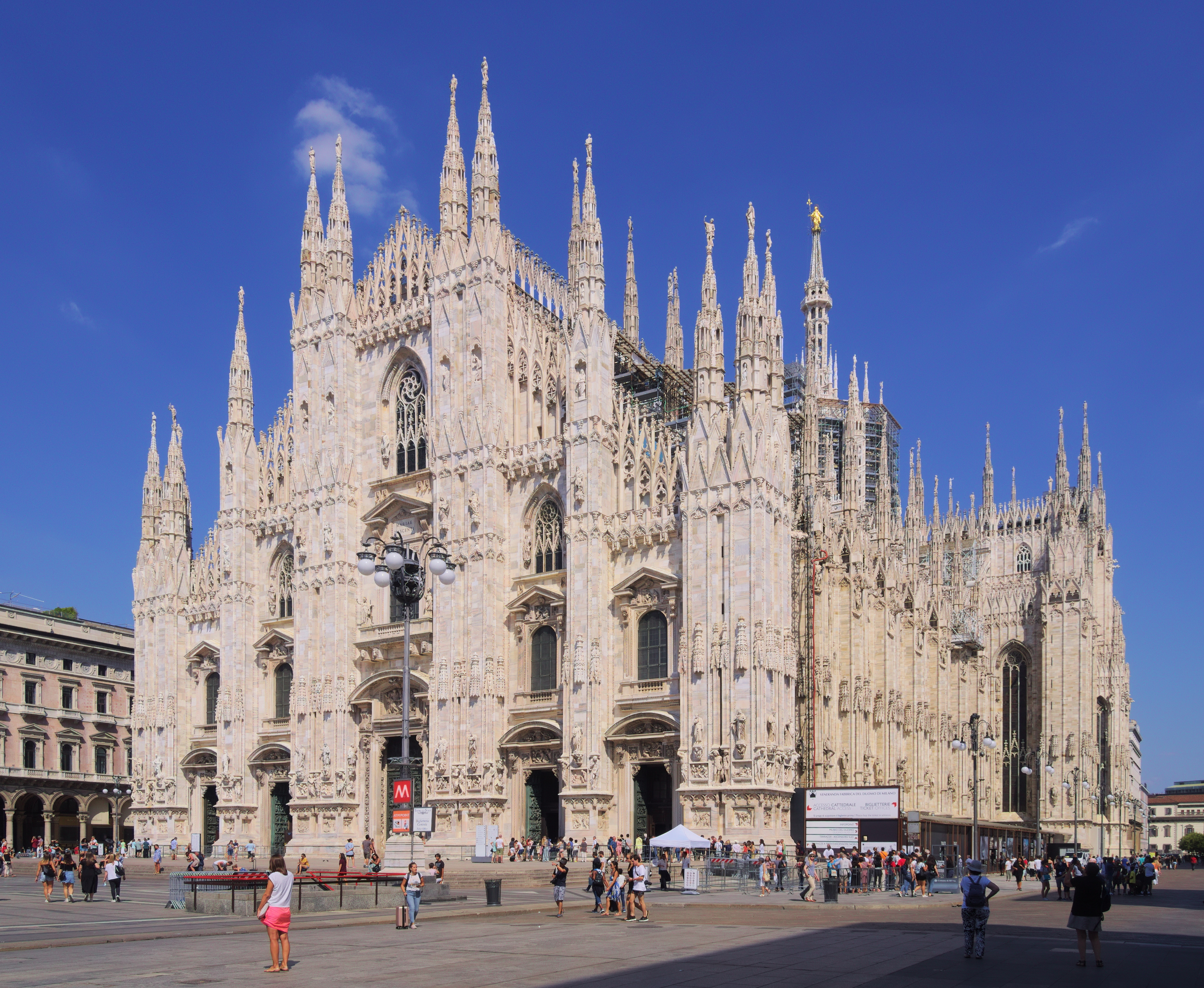 View of Duomo of Milan.